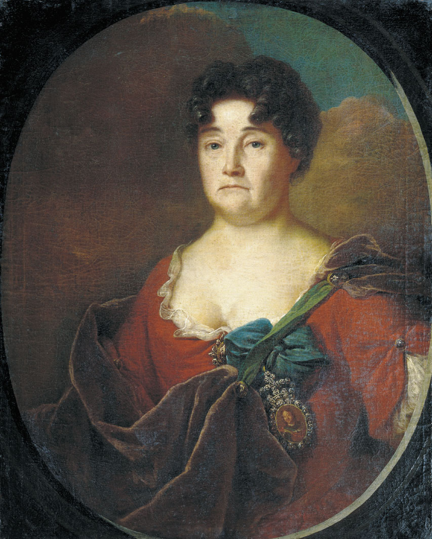 Portrait of Anastasia Golicyna (1665-1729)